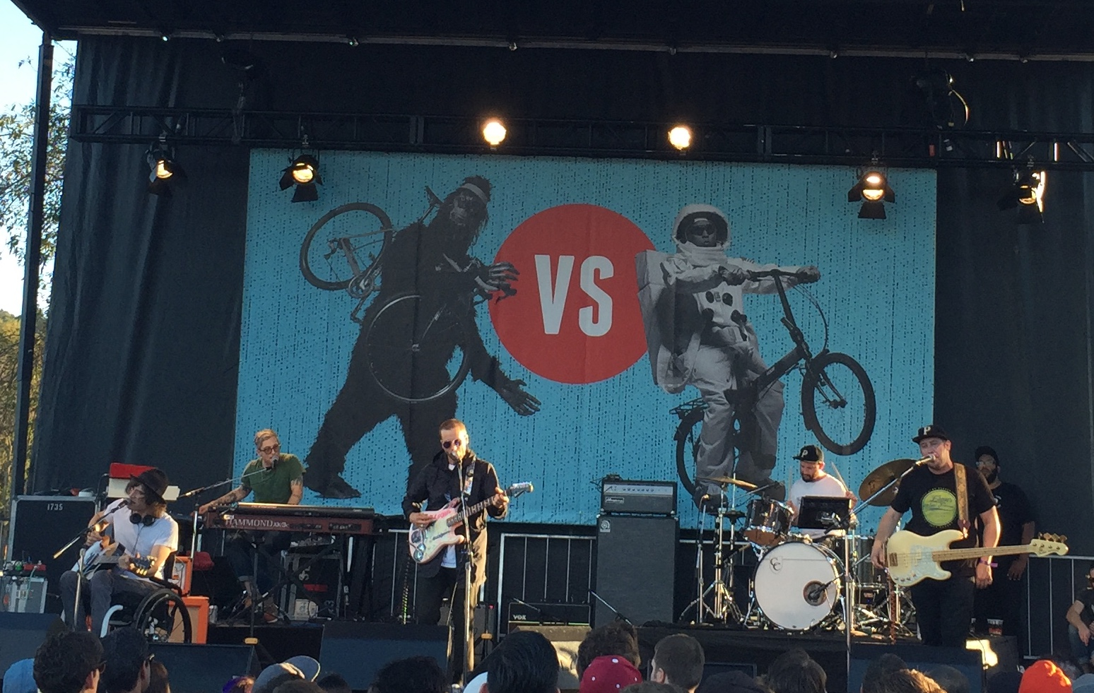 The band Portugal. The Man performing at the Cliff Bar Cyclescramble on September 24, 2016 in San Rafael, California.